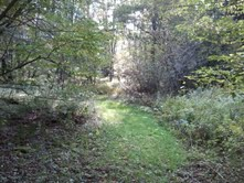 One of multiple nature trails available for hikers at Oquaga Creek State Park, New York, USA.